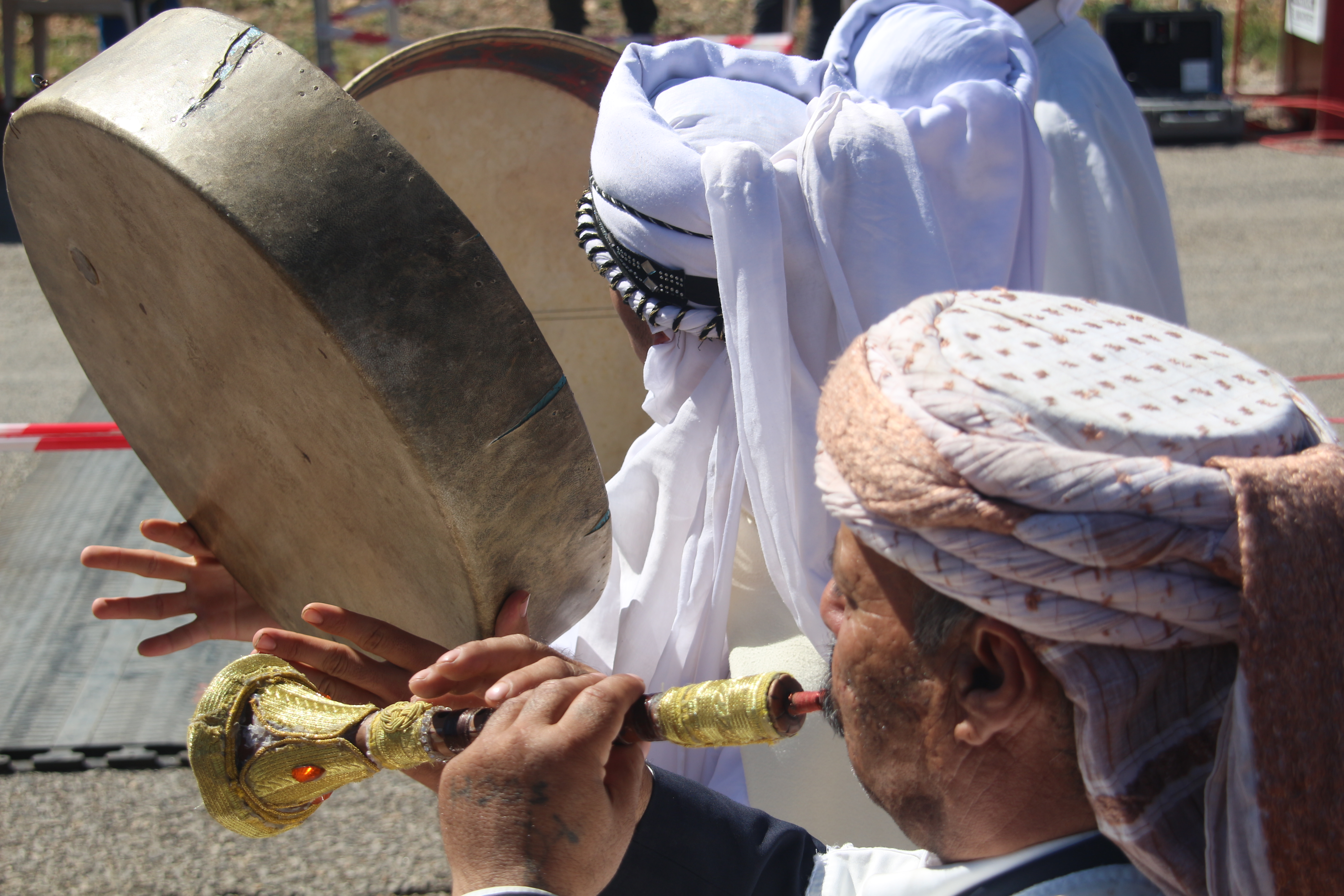 Picture of an Algerian Amazigh Eurèssiènne band in a traditional ceremony in the occasion of the Medgassen Marathon, the traditional Bandera and Boulass, a traditional band known as the region This is an image with the theme "Play" from: Algeria